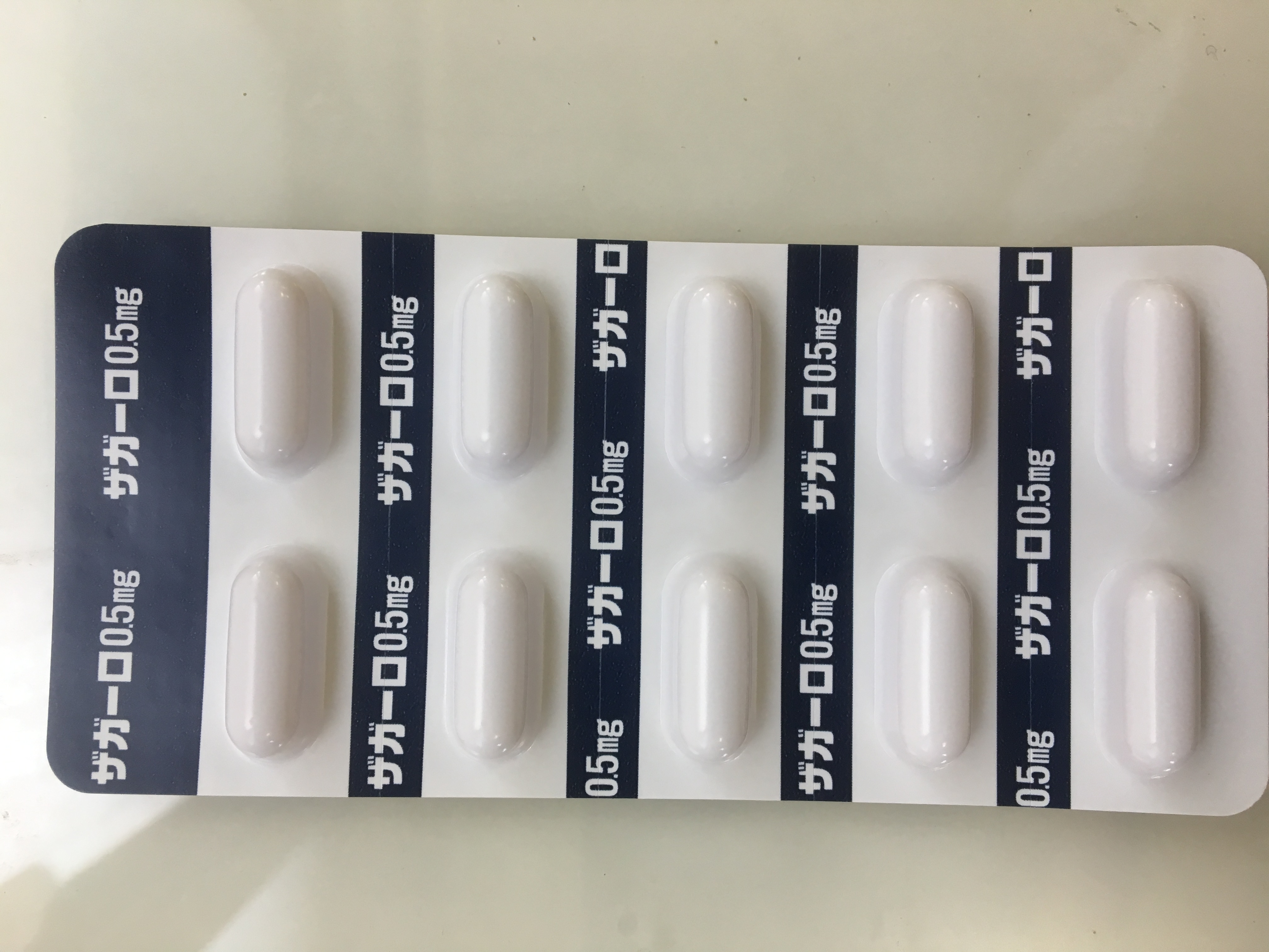 Dutasteride (ZAGALLO Capsules) 5α-reductase inhibitor